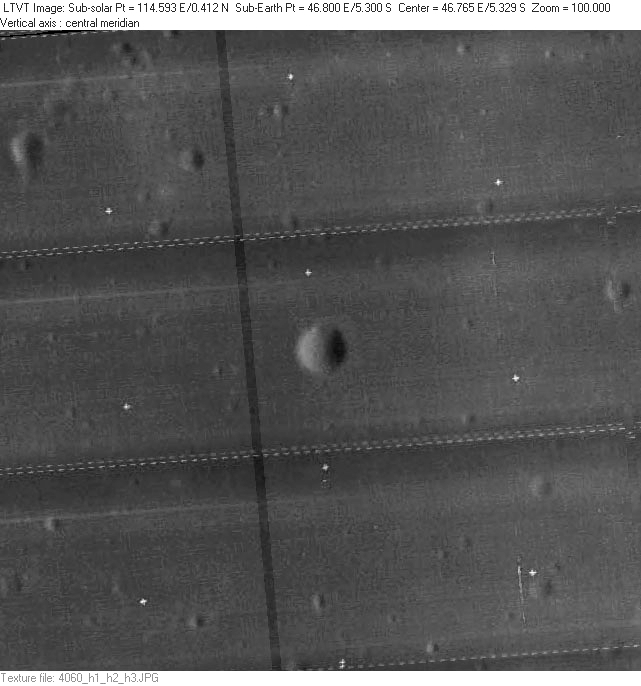 Crater Amontons on the Lunar Orbiter IV image LO-IV-060H